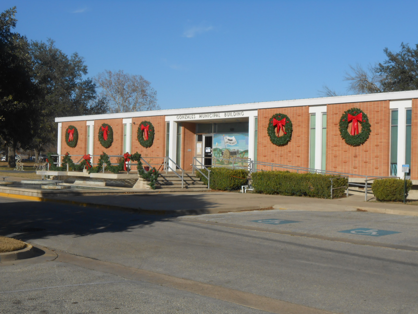 The Gonzales, Texas Municipal Building was built on St. Joseph St. in 1959. It was designed in a mid-century modern style by Emil Niggli and Barton D. Riley, architects.